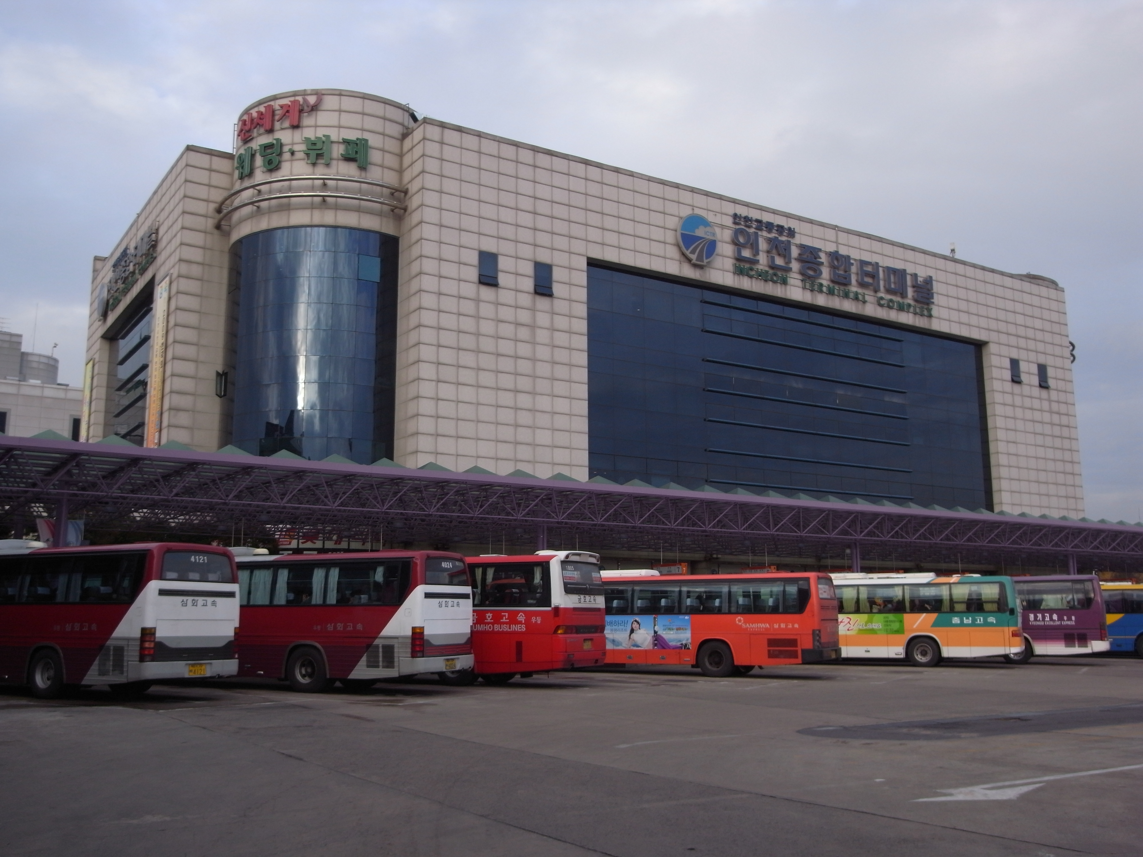 Incheon Bus Terminal in Korea